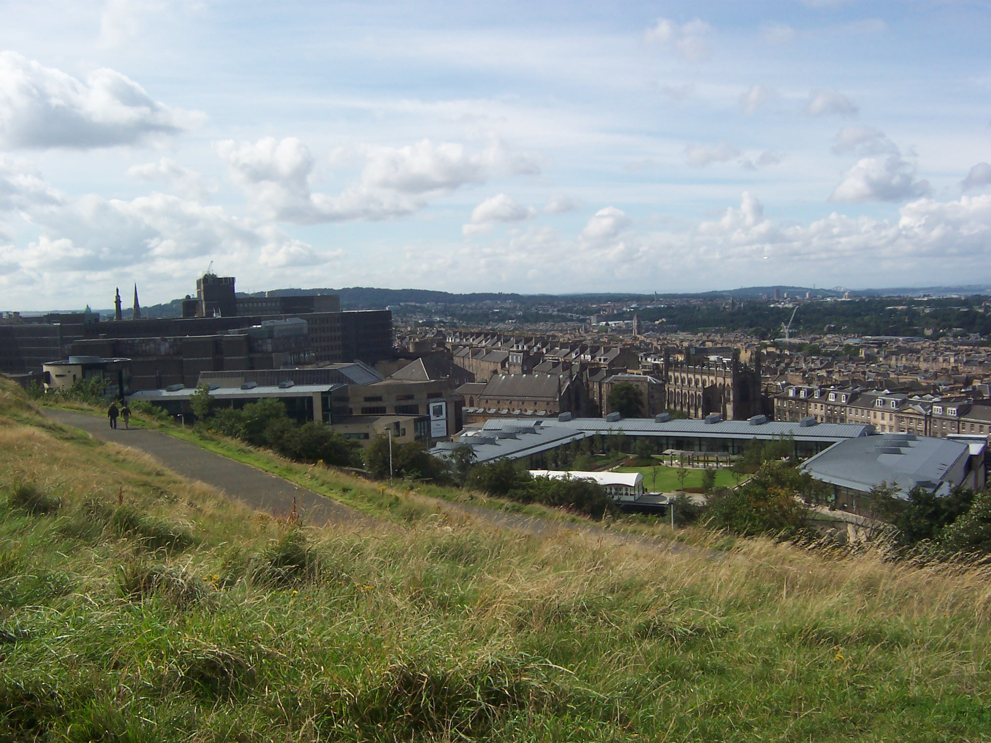 North-east Edinburgh from Calton Hill. The landmarks are the Thistle Hotel, the St. James Centre, St. Mary's Catholic Cathedral, the Omni Centre, the tower of St. Stephen's Church, St. Paul's and St. George's Church and Picardy Place. The Melville Monument, the tower of St. Andrew's and St. George's Church and the Forth Rail Bridge are also in view.